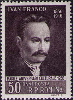 Ivan Franko Rumania, 1956, 50 b. 14 х 14 (1/2). brown Catalogues: Michel: 1607 Scott: 1125 Stanley Gibbons: 2467 Yvert et Tellier: 1481